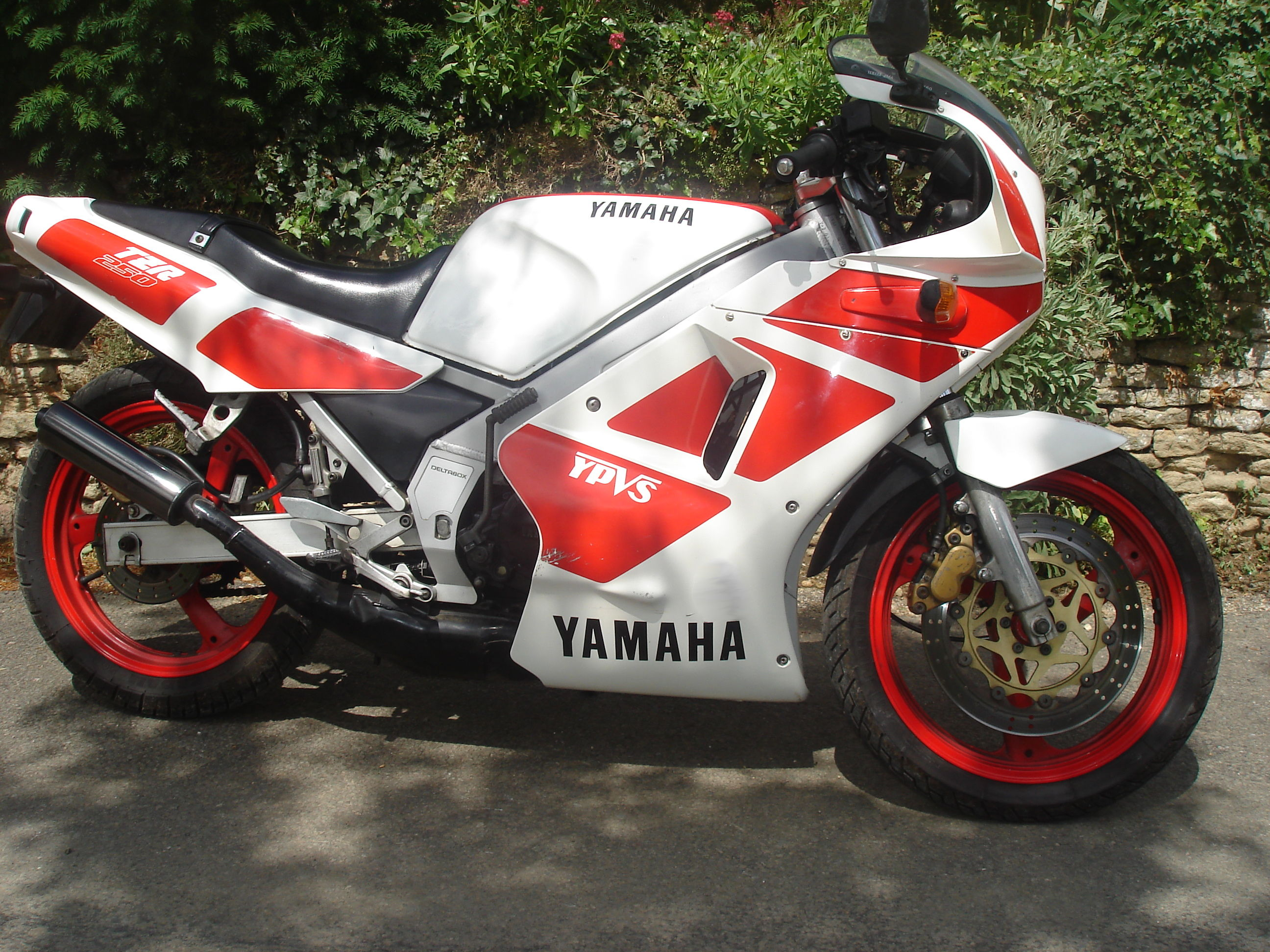 Photograph of a Yamaha TZR250 2MA taken by me.